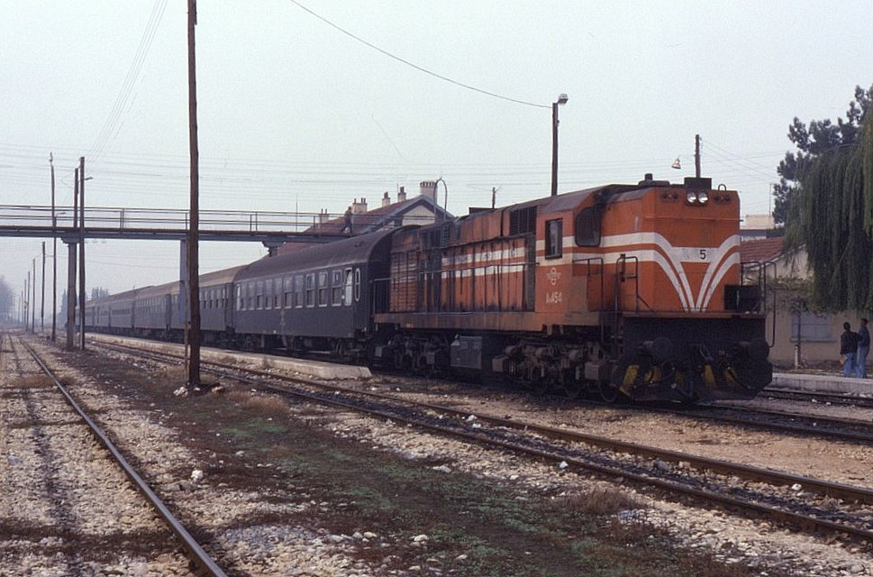 Taken during a station stop at Dráma on 5 November 1992 to cross over with a service in the opposite direction, MLW built loco A.454 is on train 604, 21:00 Athīna to Ormenio. The A.451 worked the train between Thessaloniki and Alexandroupolis.